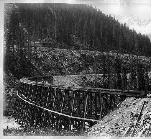 Bow River trestle bridge